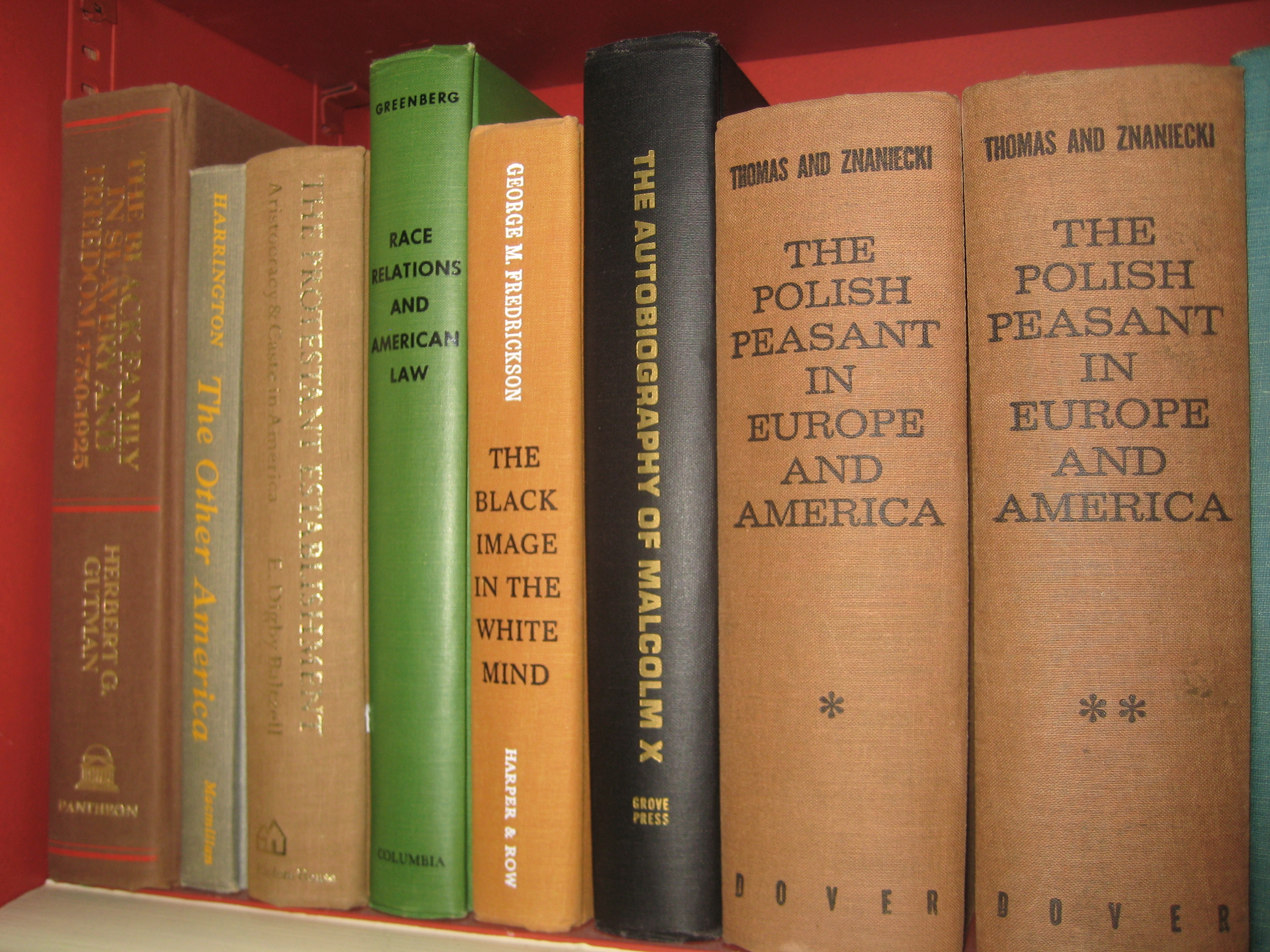 The Autobiography of Malcolm X in the White House library